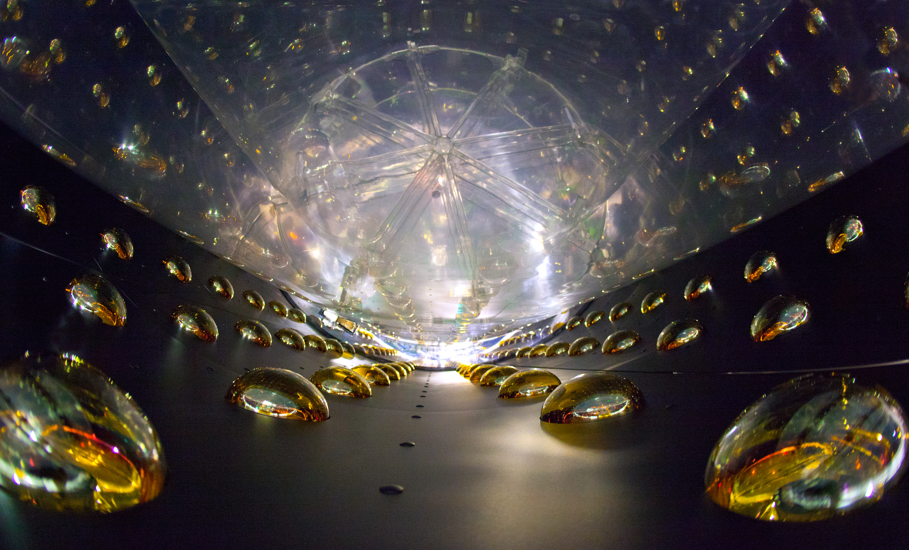 While they might look like drops of water or soap bubbles, these colorful figures are actually photomultiplier tubes that line the walls of the Daya Bay neutrino detector. Neutrinos and antineutrinos are neutral particles produced in nuclear beta decay when neutrons turn into protons. This experiment aims to measure the final unknown mixing angle that describes how neutrinos oscillate. The tubes are designed to amplify and record the faint flashes of light that signify an antineutrino interaction. Lawrence Berkeley and Brookhaven National Labs and a number of physicists at U.S. universities played leading roles in the Daya Bay experiment, from designing the detectors all the way through to analyzing the data gathered.